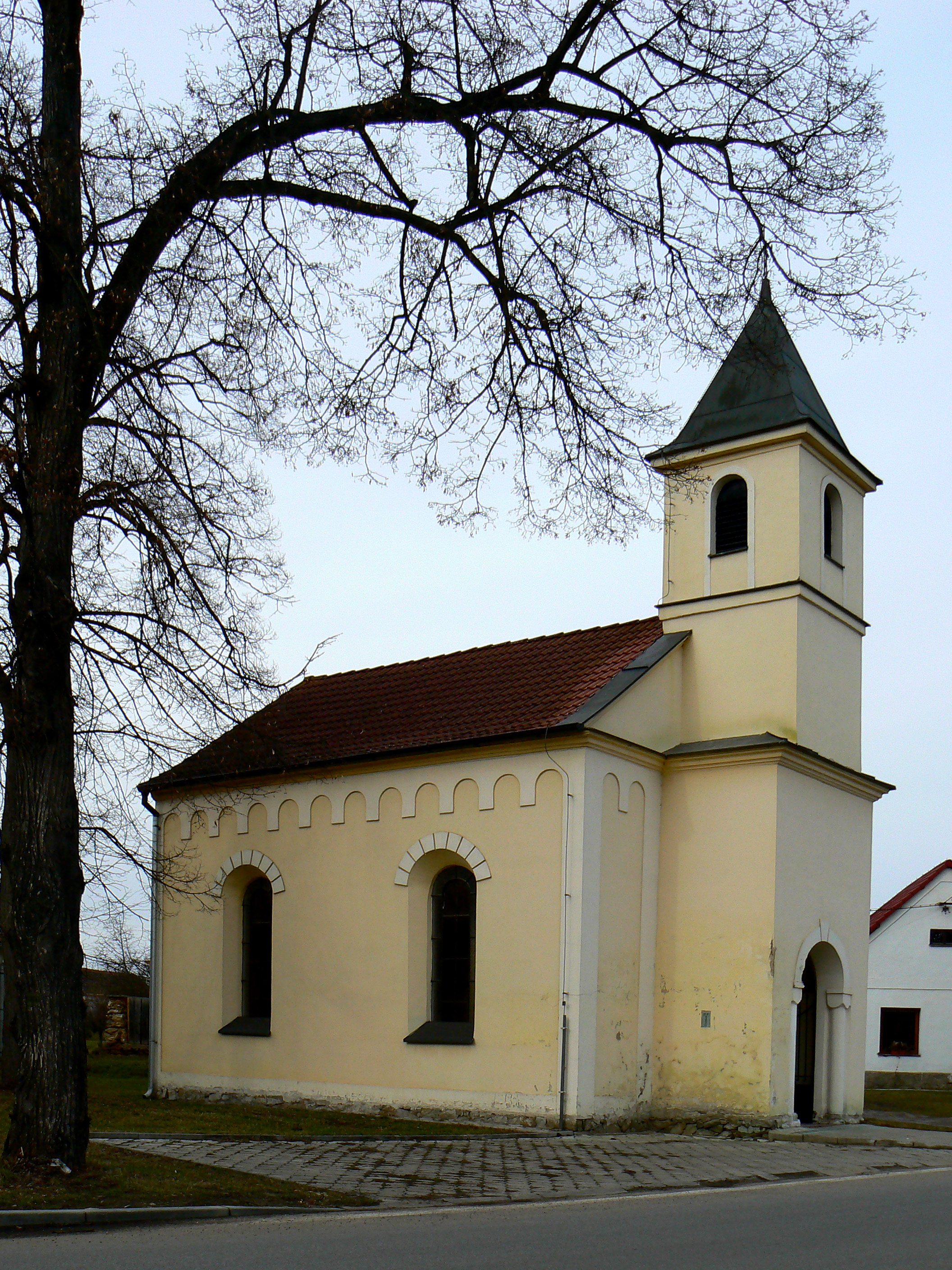 Chapel in Mokré, České Budějovice district, Czech Republic